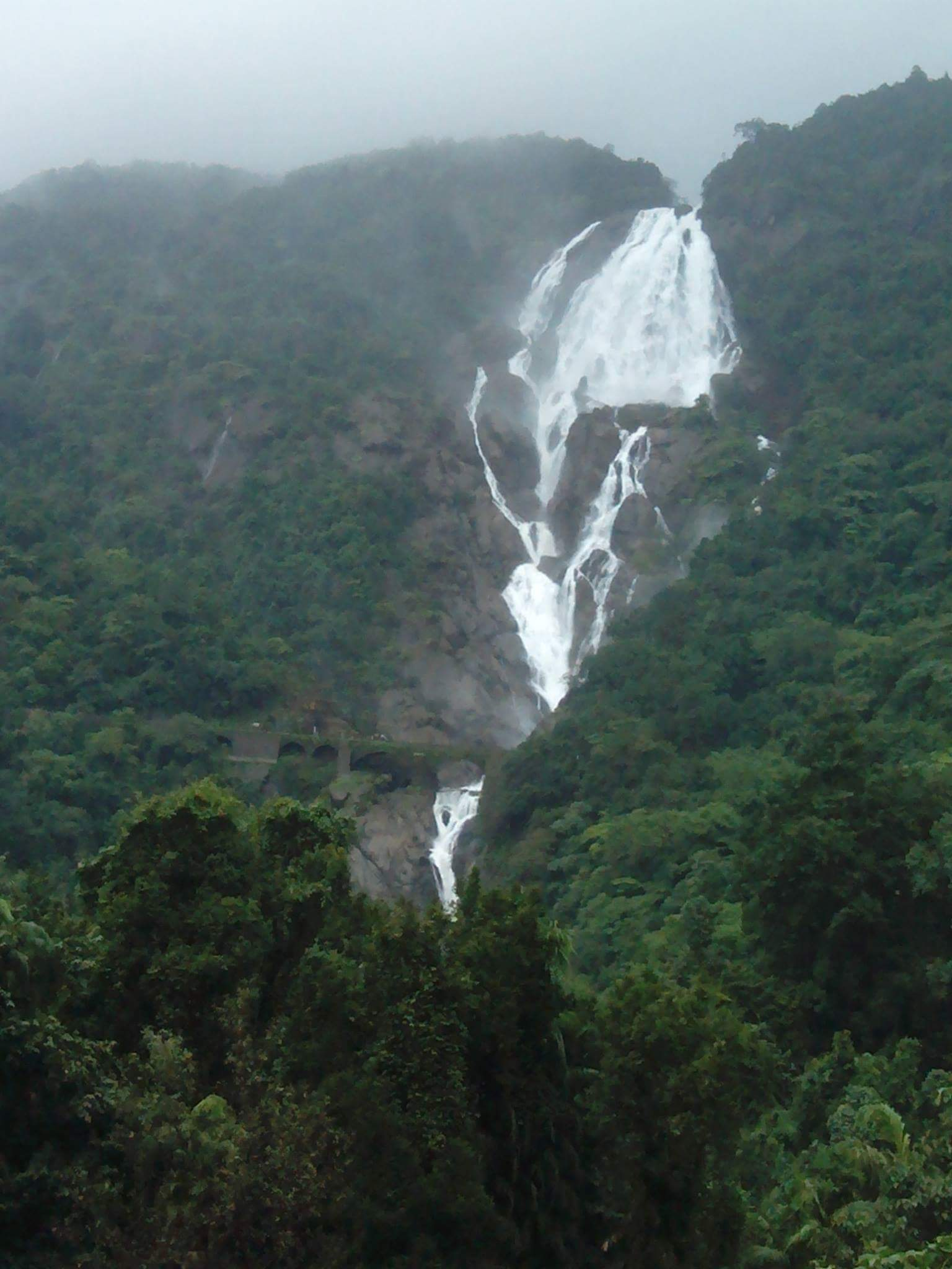 Dudhsagar waterfall in kullem Goa